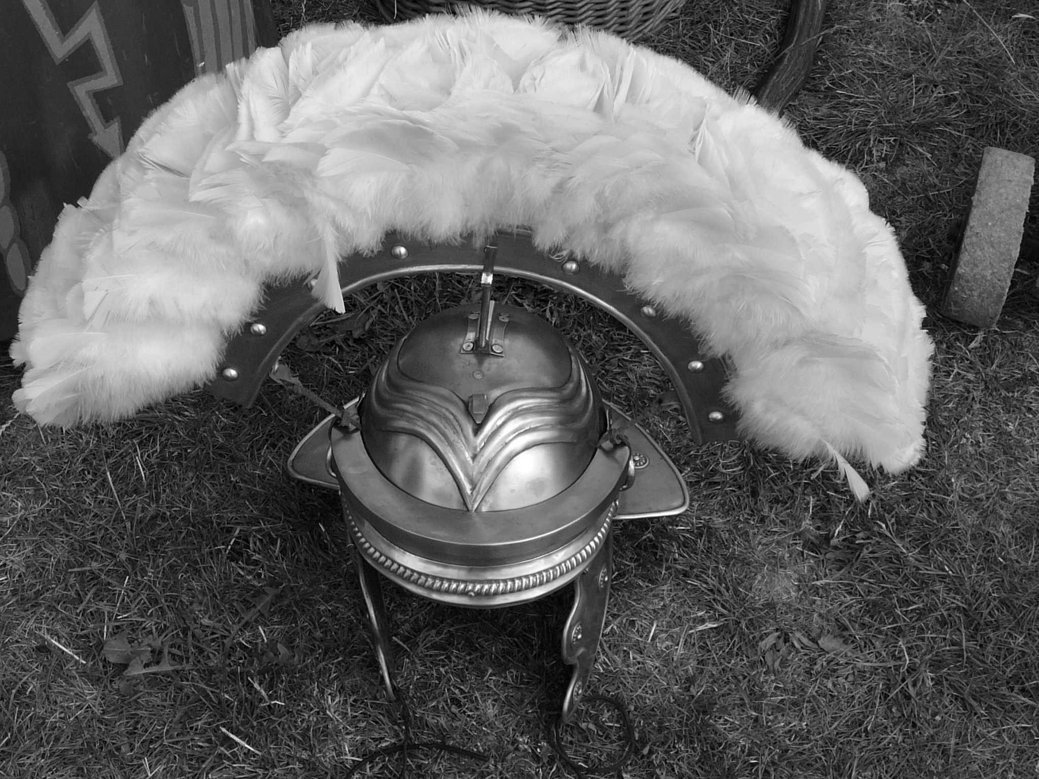 Modern replica of a centurion's helmet, Savaria Carnival, 2009.